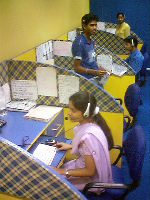 An Indian call center